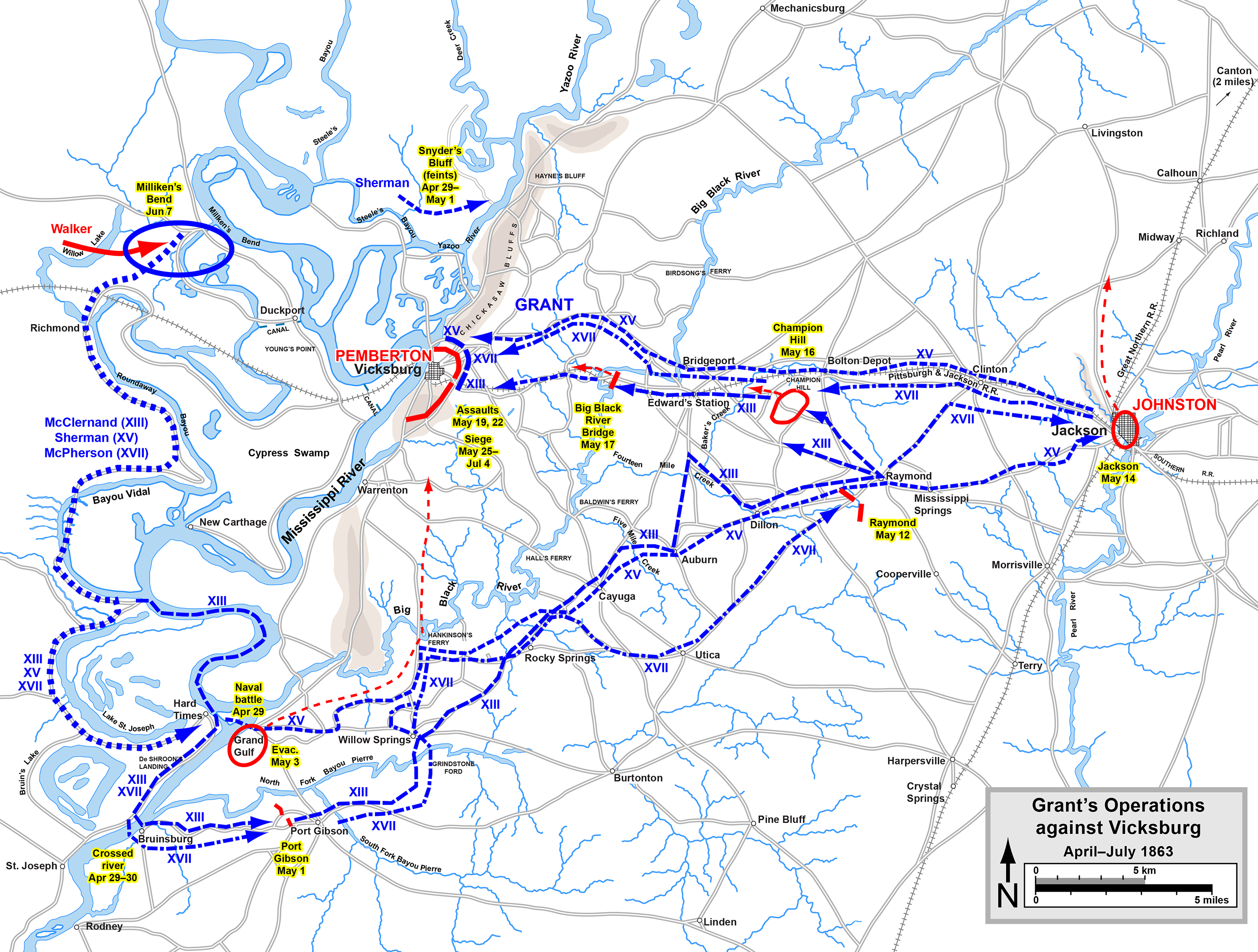 Map of the Vicksburg Campaign of the American Civil War, drawn in Adobe Illustrator CS6 by Hal Jespersen. Some graphic elements copied from a public domain resource of the U.S. government. Graphic source file is available at